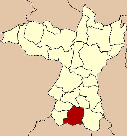 Map of Khon Kaen Province, Thailand, highlighting the district Phon (อำเภอพล)